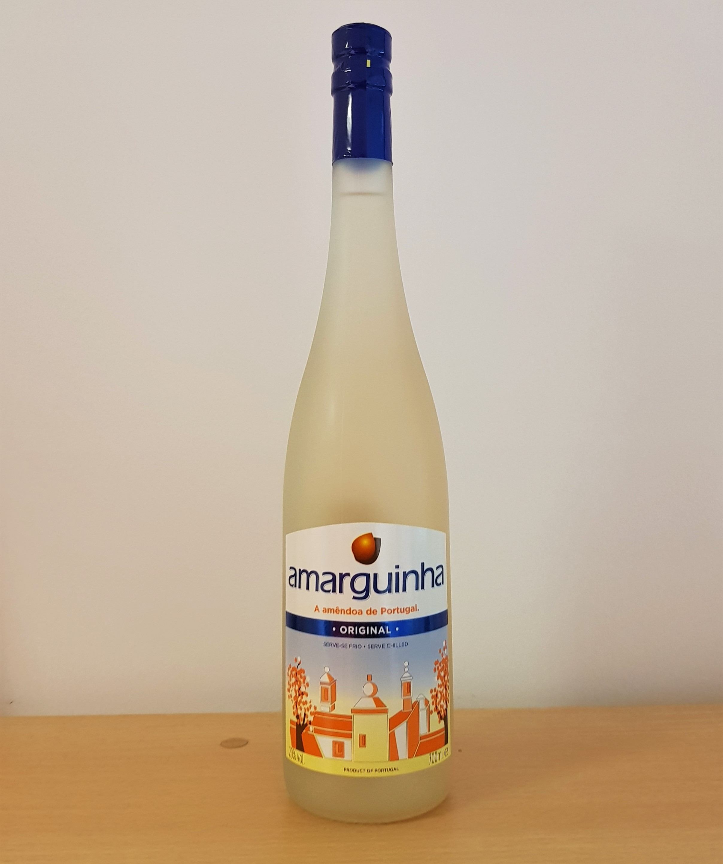 Portuguese-made bottle of traditional bitter almond liqueur, from the Algarve region.